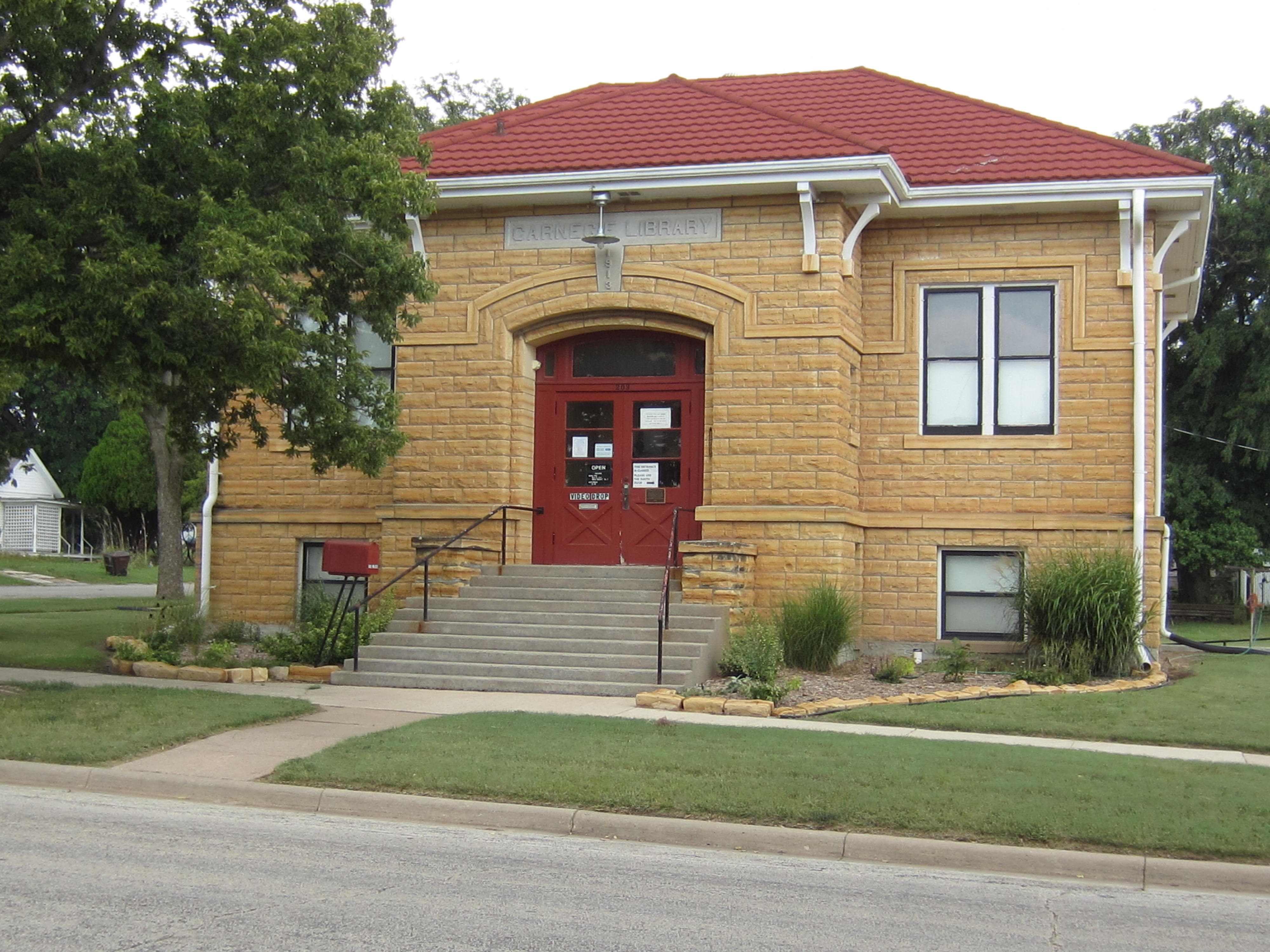 Lincoln, KS public library funded by Andrew Carnegie.